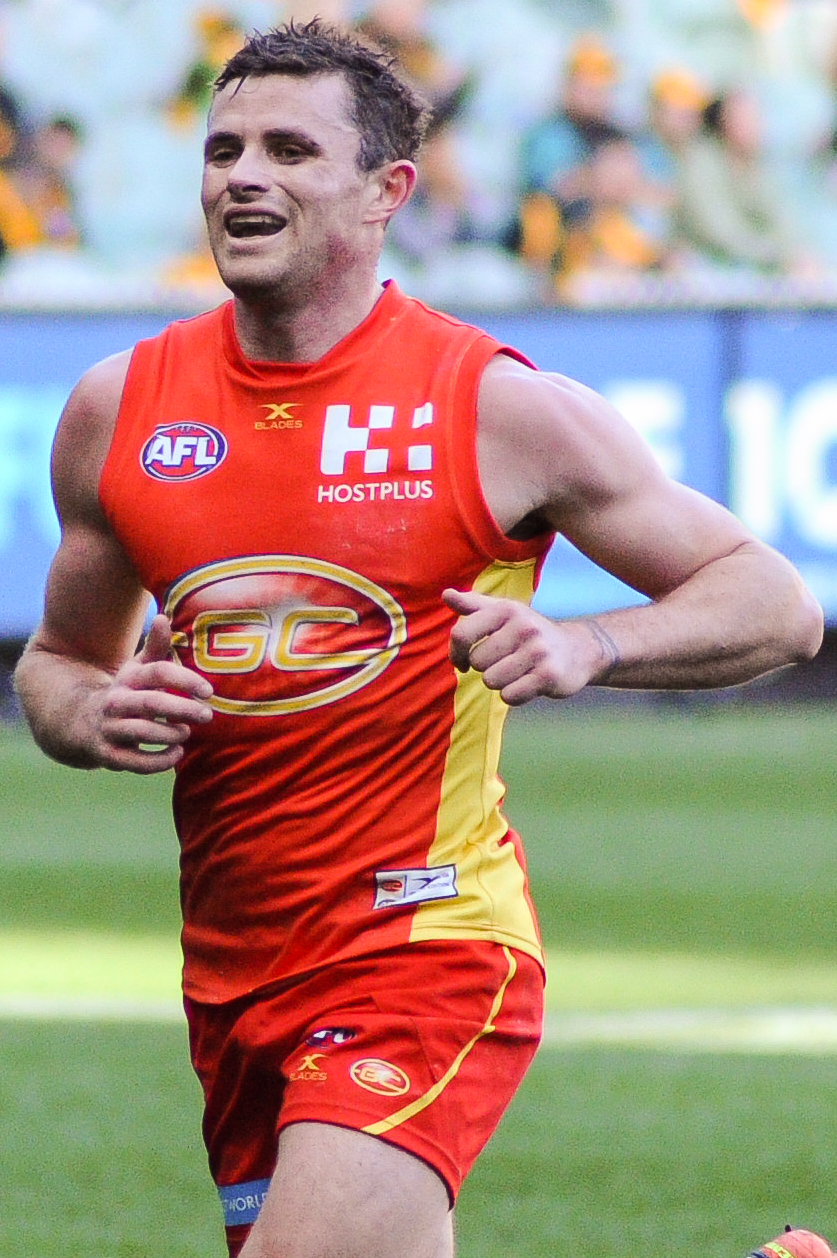 Pearce Hanley during the AFL round twelve match between Melbourne and Collingwood on 10 June 2017 at the Melbourne Cricket Ground in Melbourne, Victoria.